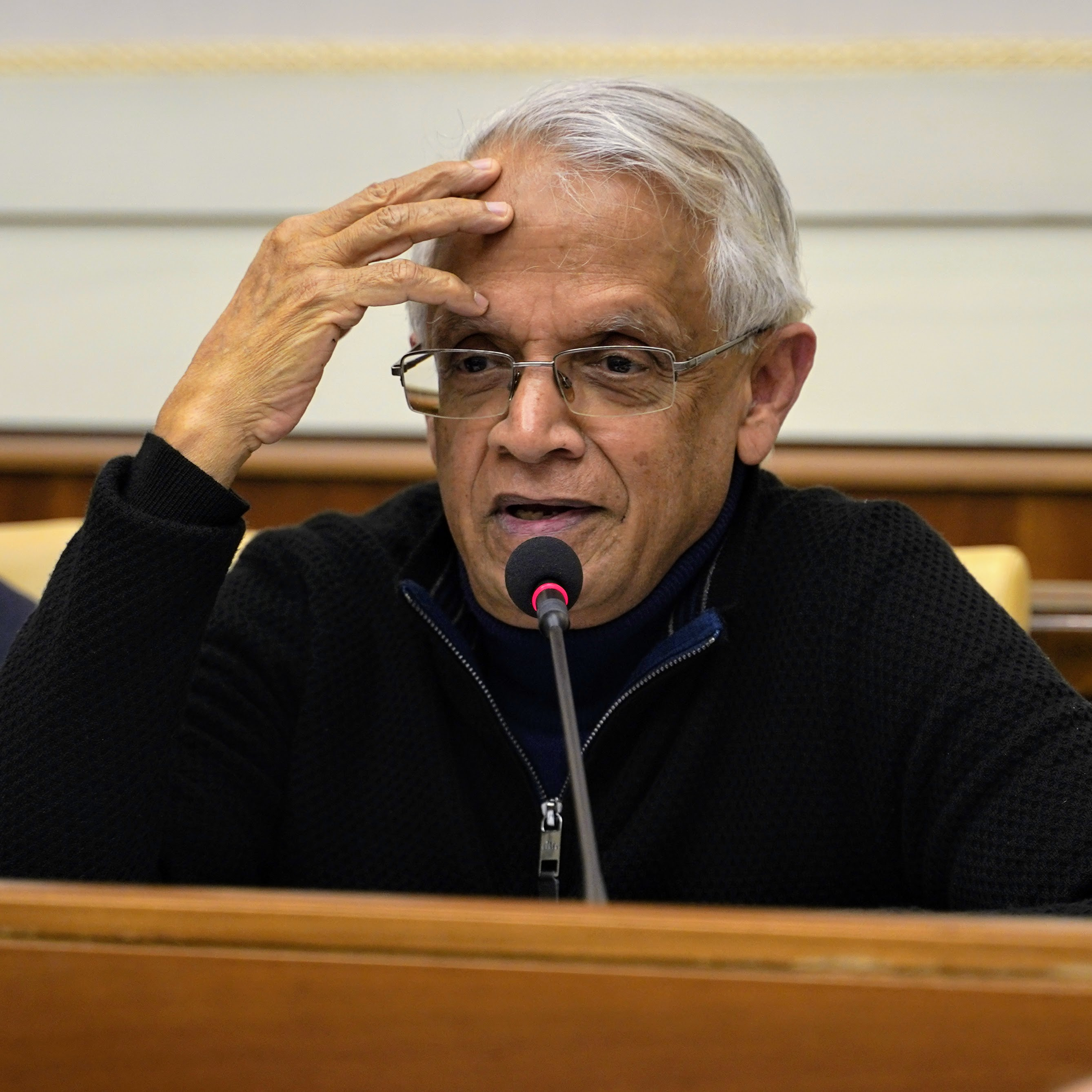 Portrait of Veerabhadran Ramanathan at the Pontifical Academy of Sciences on 6 February 2020